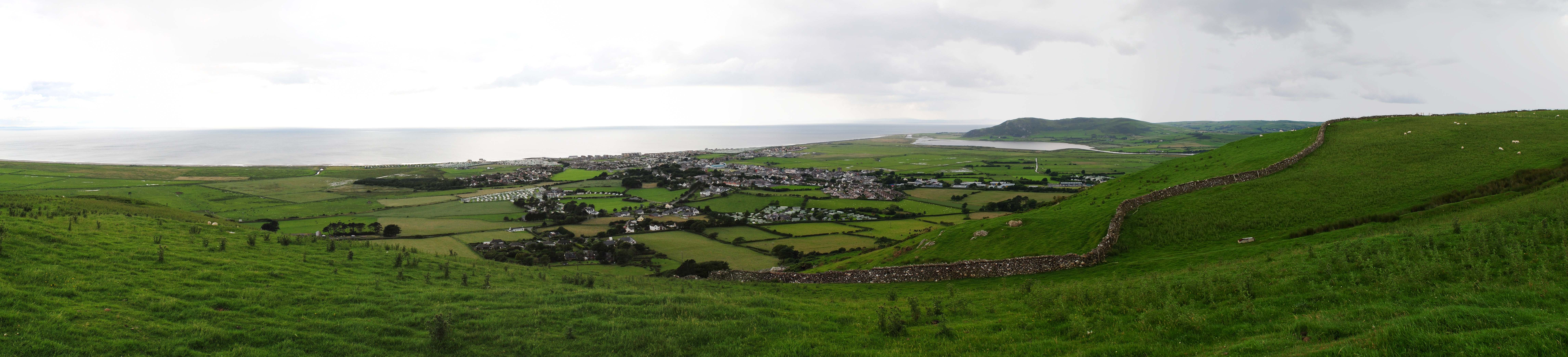 A panorama of Tywyn from the top of some random hill to the East of the town.